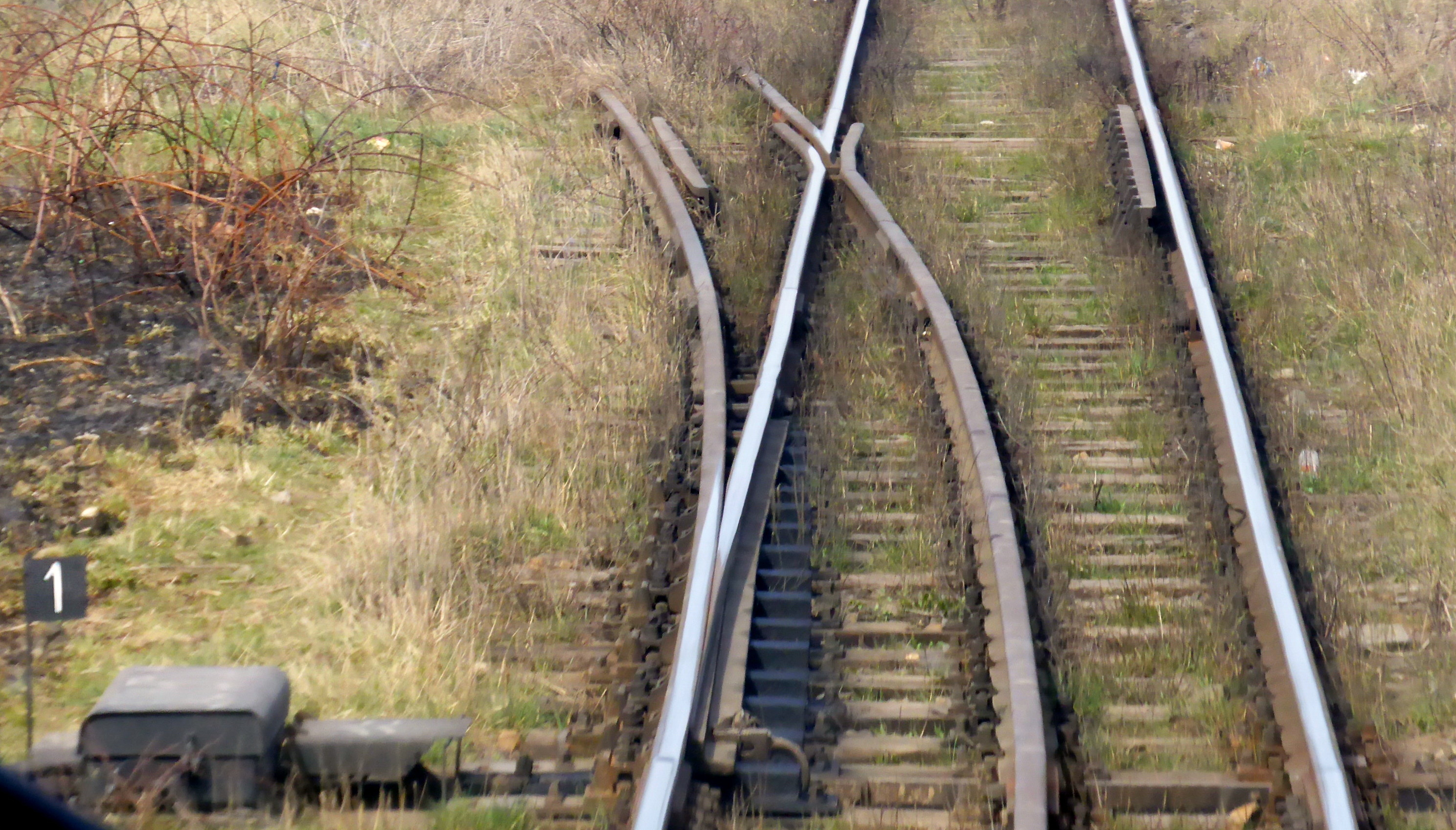 The Agnita narrow-gauge railway line joining the standard-gauge mainline in Sibiu County, Romania.